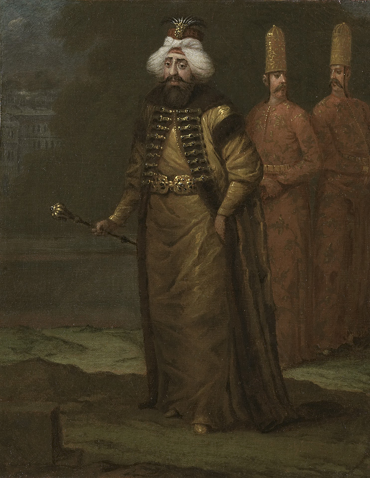 Portrait of Sultan Ahmed III (1703-1730). In the background, two followers. Part of a series of paintings with Turkish subjects from Turkey to the Netherlands by Cornelis Calkoen the ambassador and his cousin Nicholas in 1817 to the Executive Board of the Levant Schenardi Commerce in Amsterdam.